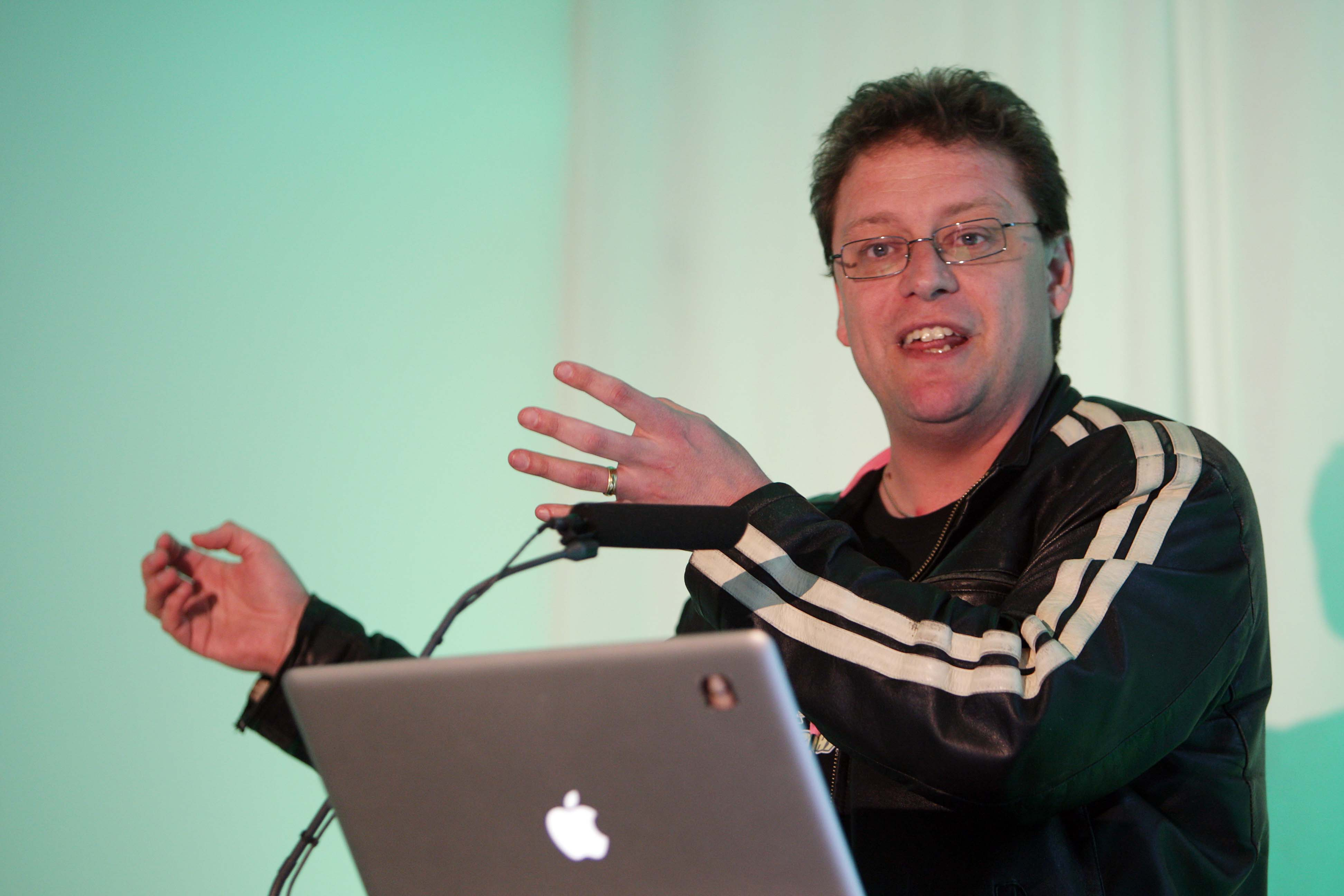 ACE (Awakening, Creative, Entrepreneurship) Conference held in Derry. Ian Hughes, Metaverse Evangelist, Director of Feeding Edge Ltd, and formely of IBM.